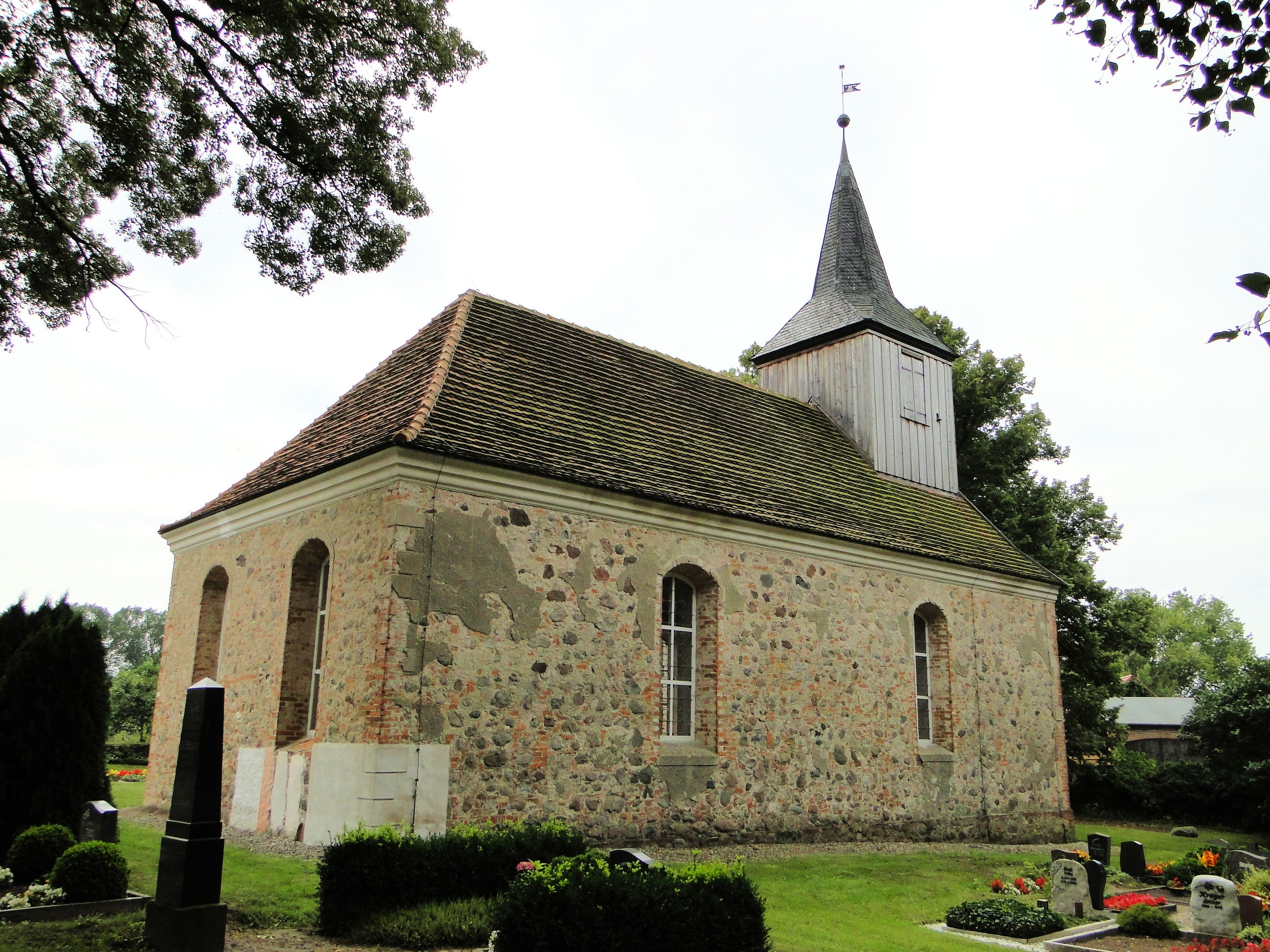 Church in Gliencke, district Mecklenburg-Strelitz, Mecklenburg-Vorpommern, Germany